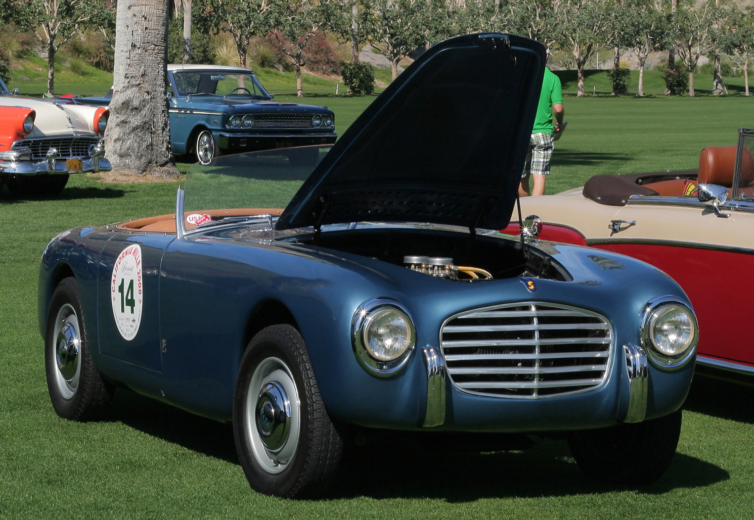 1951 Siata Daina Gran Sport at Palm Springs Desert Classic Concours d'Elegance, March 01, 2009